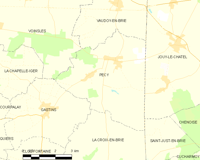 Map of French municipality Pécy